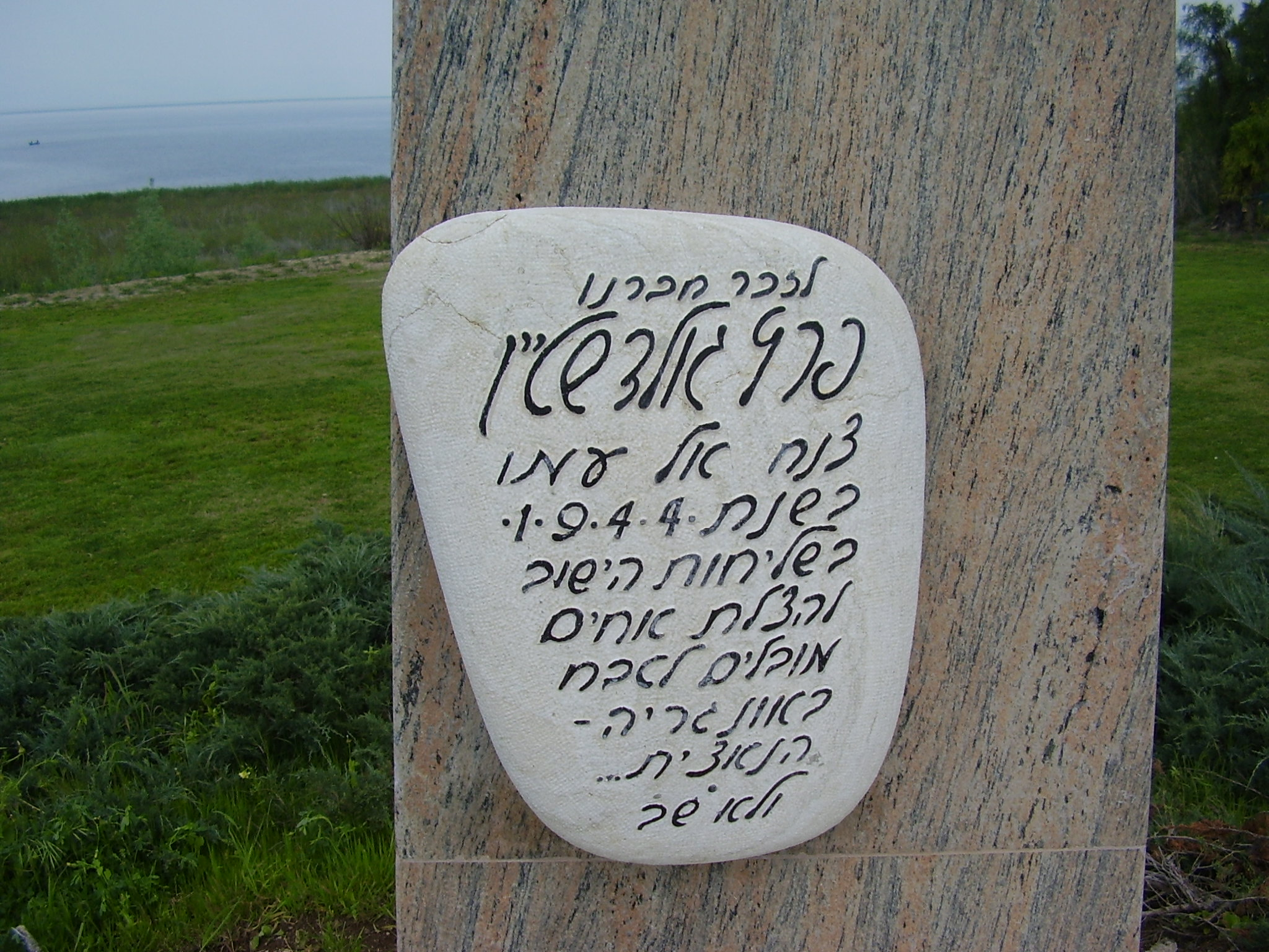 Kibbutz Ma'agan